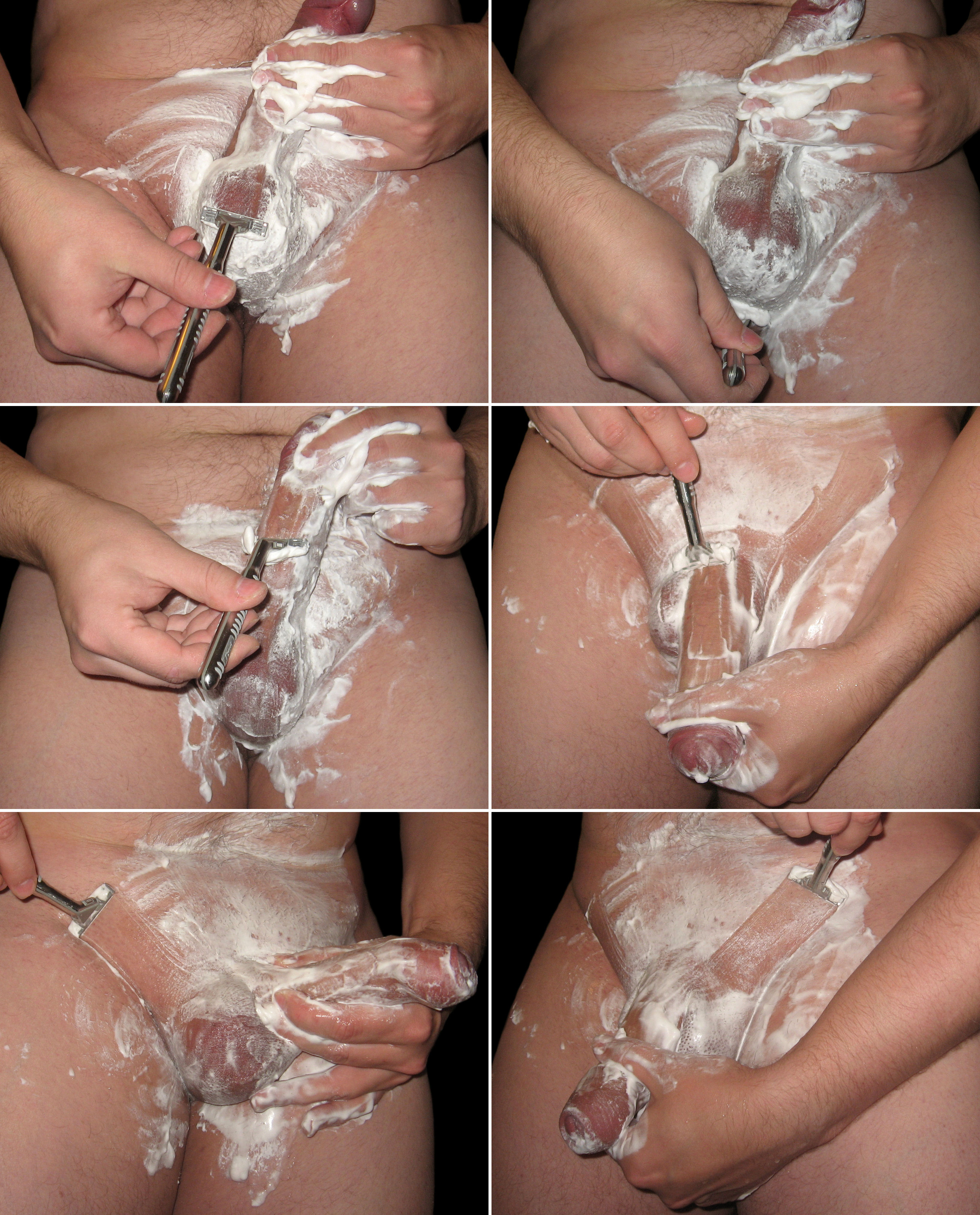 In this series of images a postpubertal male (age 30) is shaving his pubic area. It is important to pull tight the skin area that is being shaved if there is loose skin (especially the scrotal skin). Erection might be of some help when shaving the penile area.